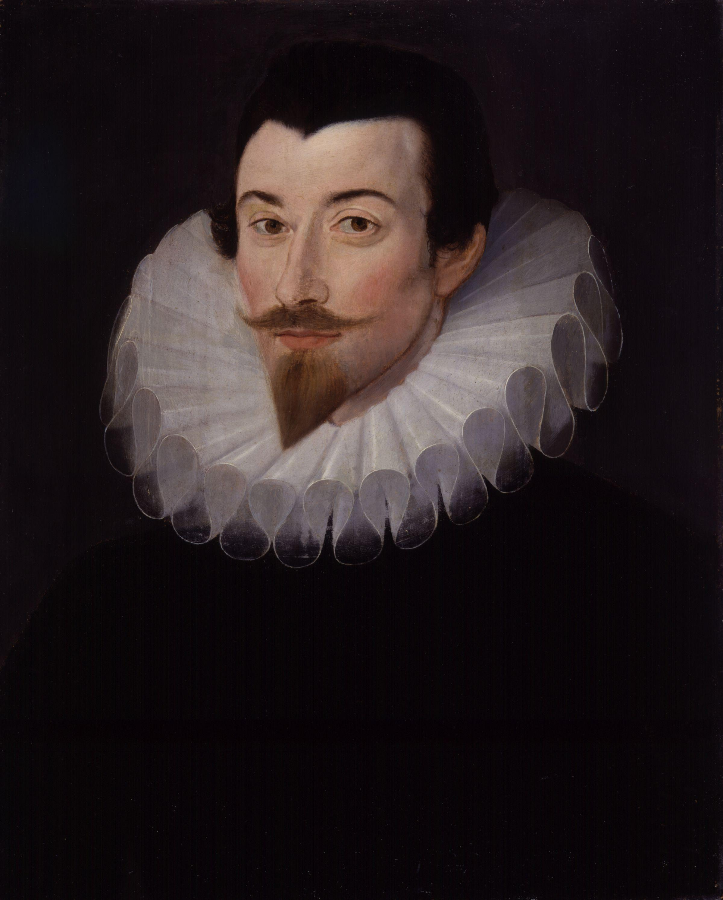 This portrait is a cut-down version of a three-quarter-length (at Ampleforth Abbey as of 1969). Attributed to Custodis (Roy Strong, The English Icon: Elizabethan and Jacobean Portraiture, 1969, Routledge & Kegan Paul, London).